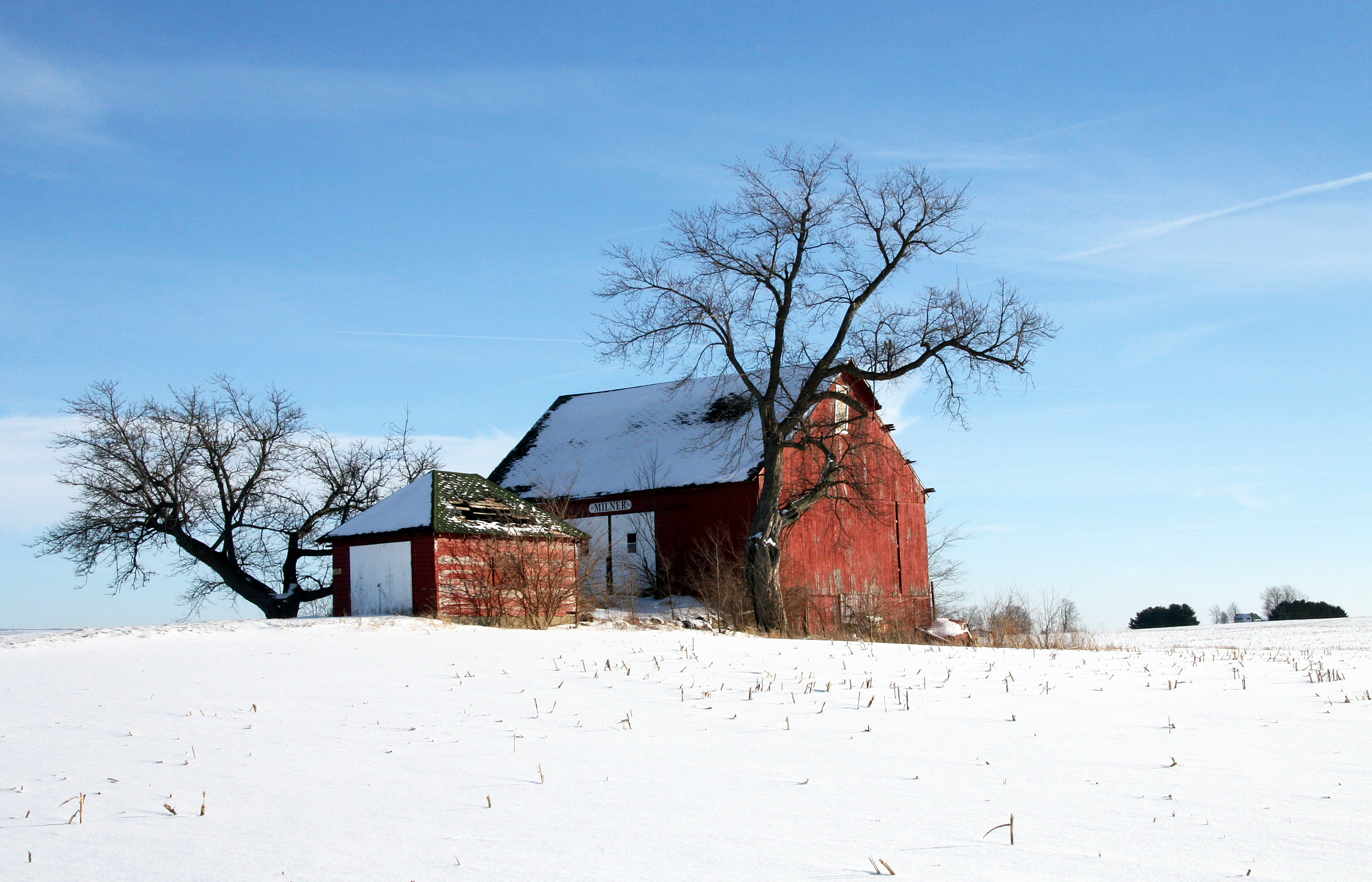 The Milner barn on the east side of the town of Sedalia in Clinton County, Indiana. Photo looks southeast from Indiana State Road 26. The barn has since been razed and the site made into open farm land.